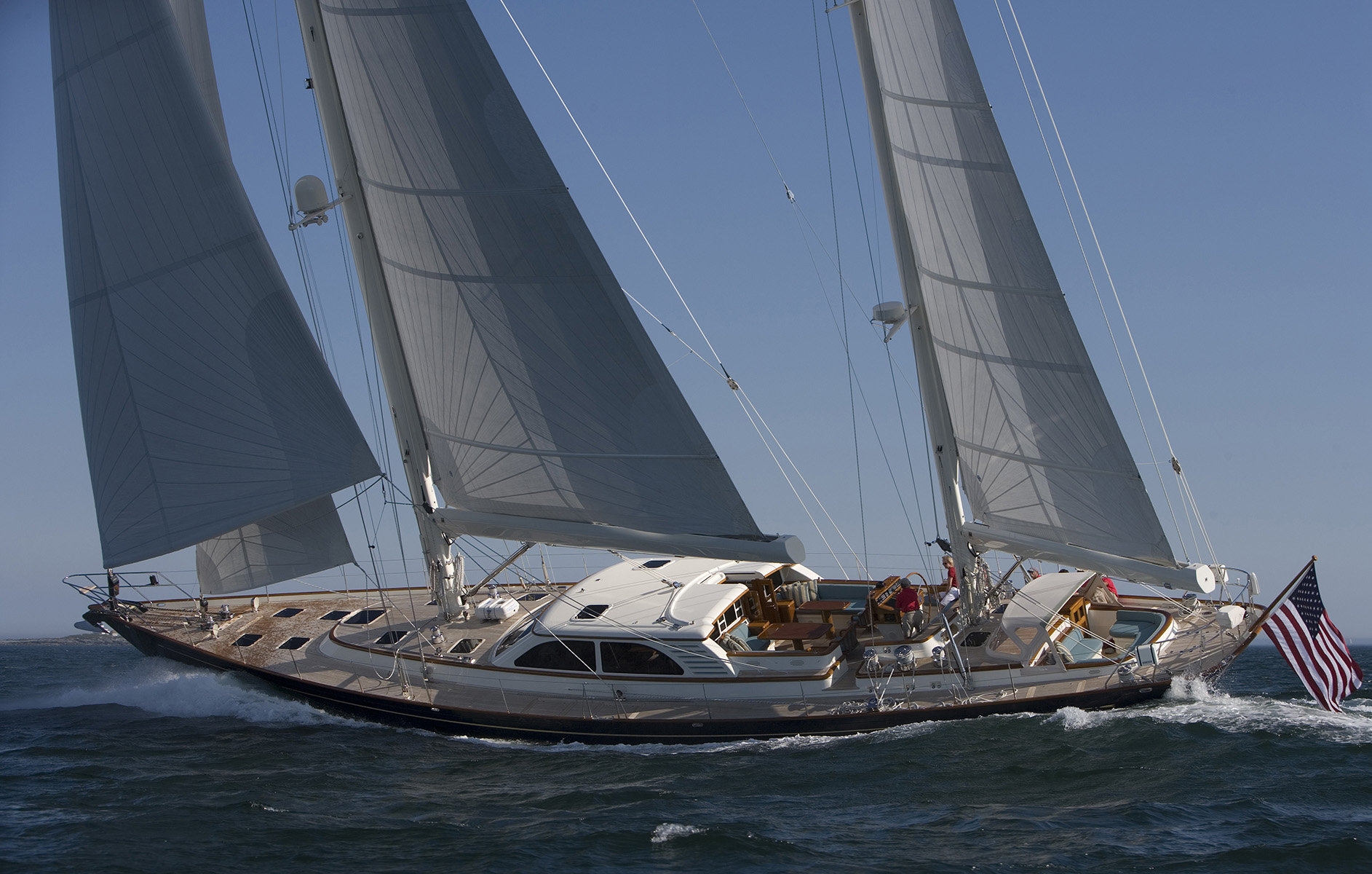 Windcrest in Bar Harbor Maine. 98 foot Ted Fontaine design built by Hodgdon Yachts.